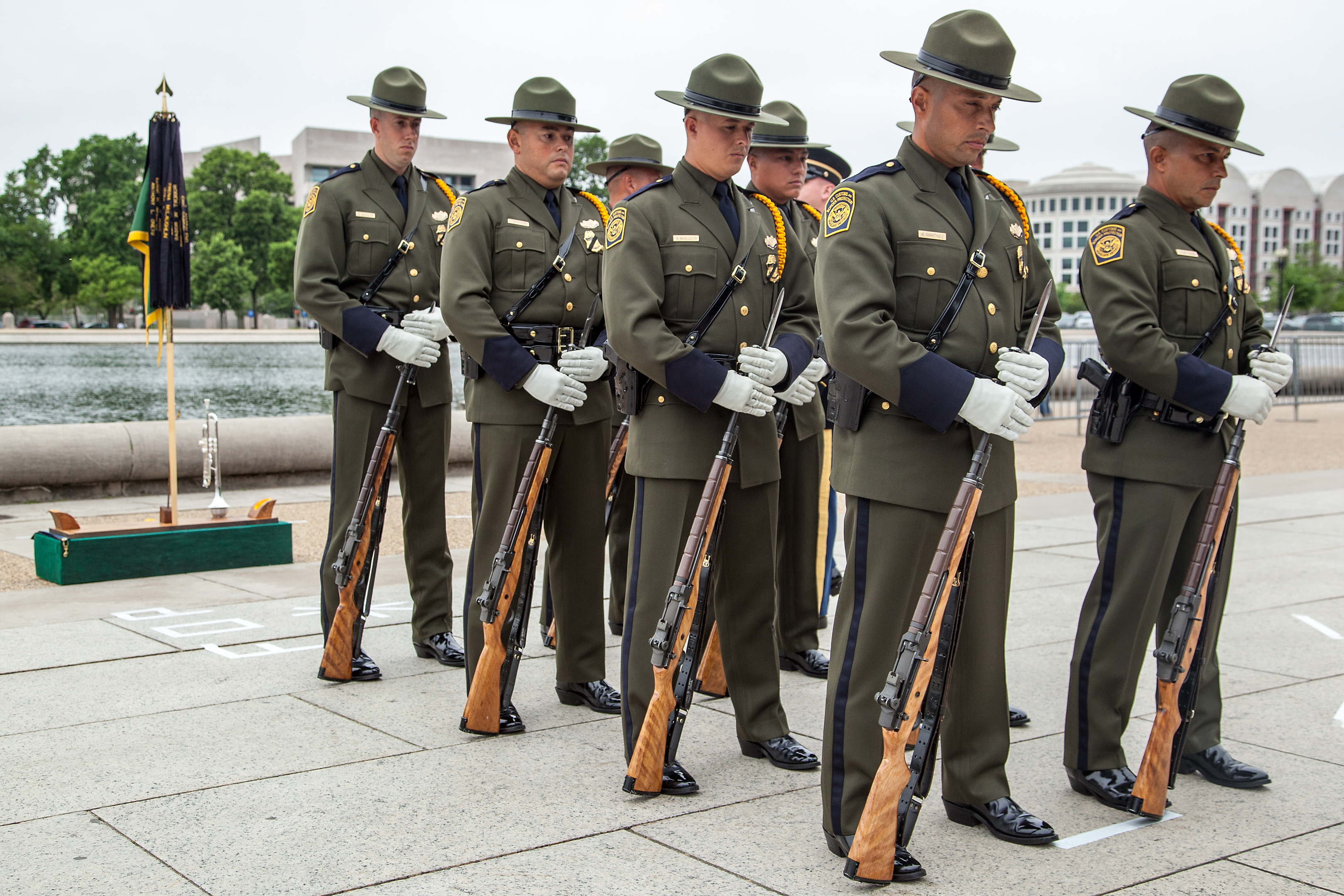 051414: Washington, D.C. - A Drill Team competition was held at the Ulysses S. Grant Memorial in front of the U.S. Capitol during the 2014 Police Week. The competition hosts drill teams from all over the U.S. and this year CBP was represented by teams from Border Patrol and the Office of Field Operations. Photographer: Josh Denmark